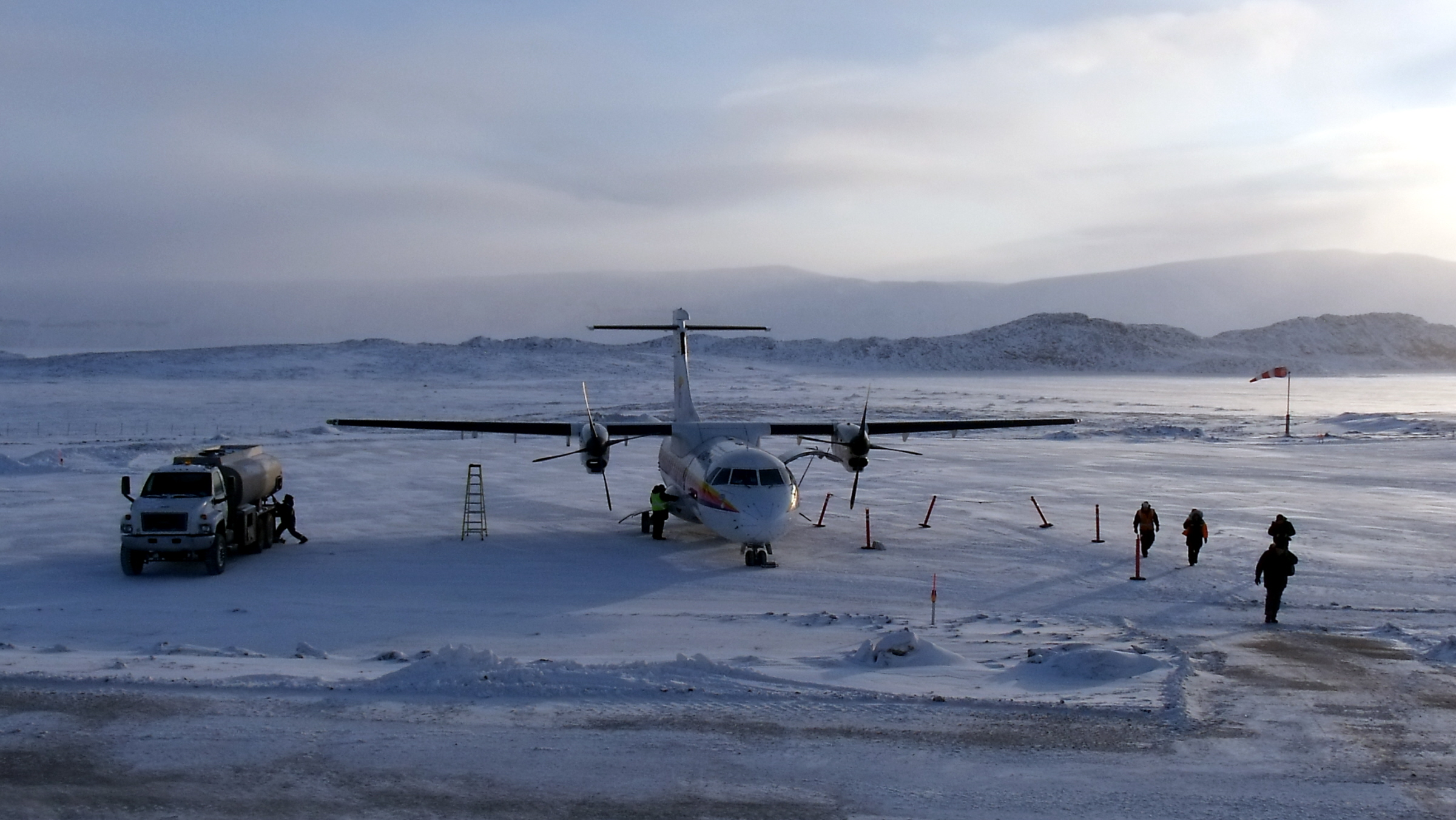 Waiting to catch First Air's ATR just in from Resolute. Next stop Pond Inlet on a ice-fogged day. Arctic Bay`s true name is Ikpiarjuk, which means ``the pocket``. Have a peek at the map to see why.